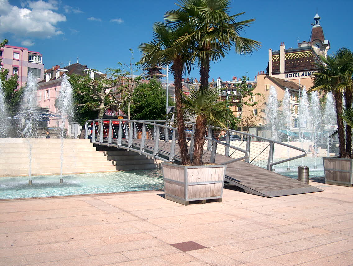 Ocmey, personal photo, summer '05, Ouchy Lausanne